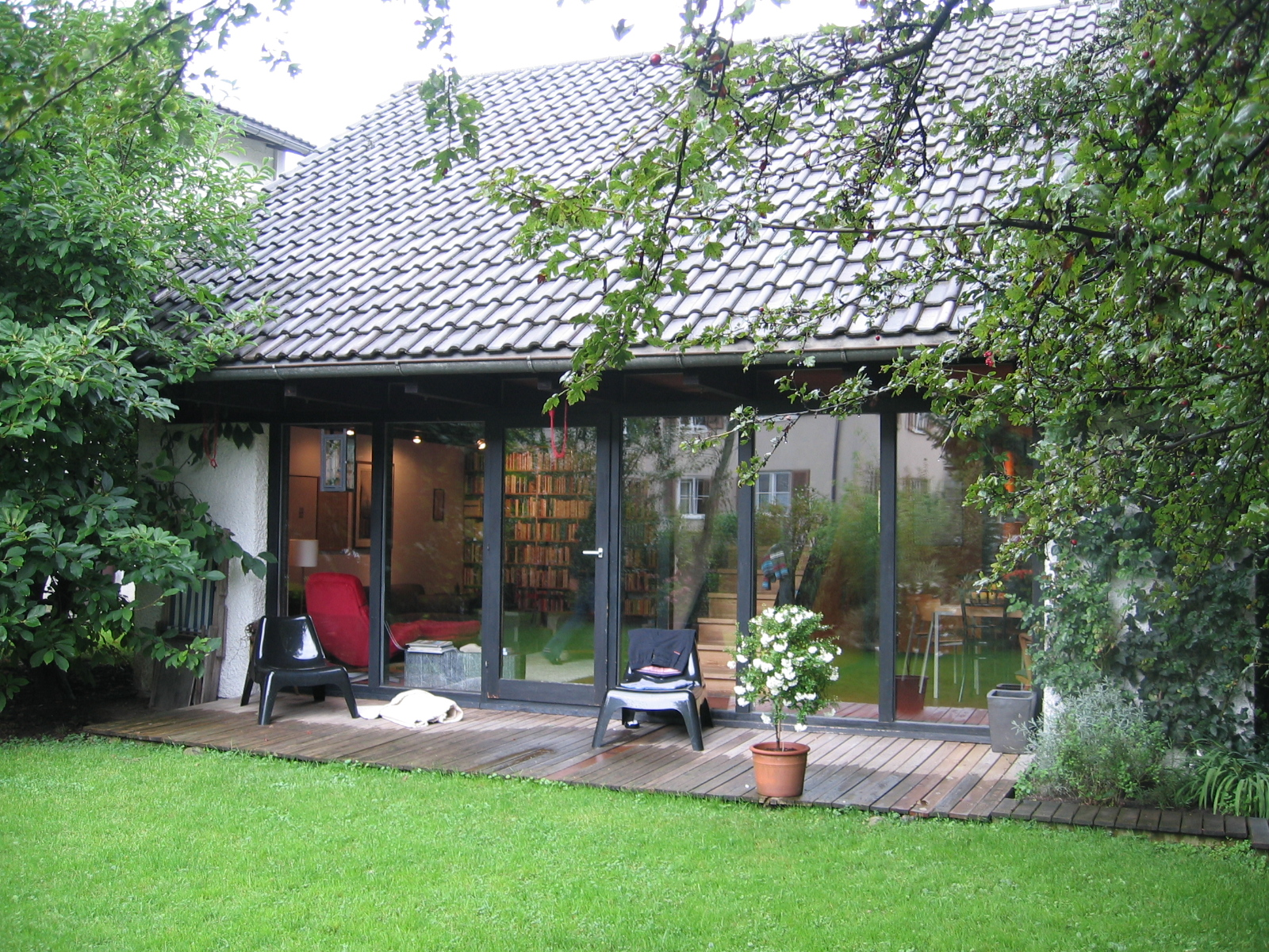 The Haus F. of the austrian architect Hans Purin in Bregenz